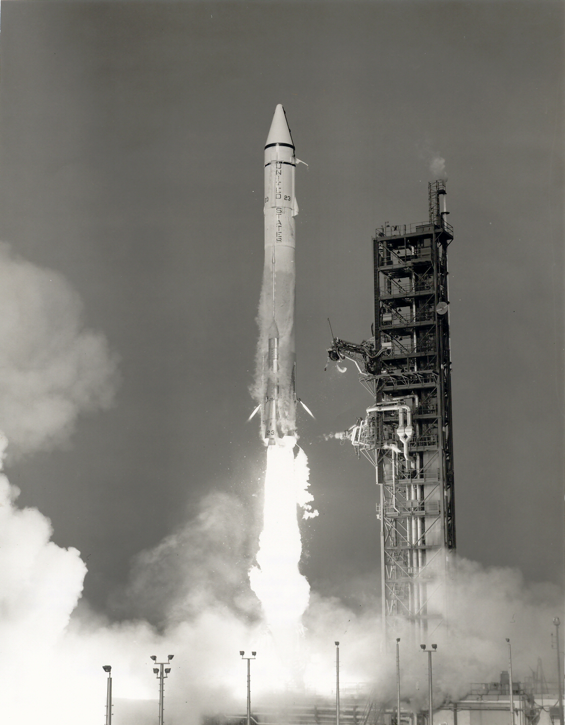 Launch of Atlas-Centaur carrying Mariner 9 Mars probe